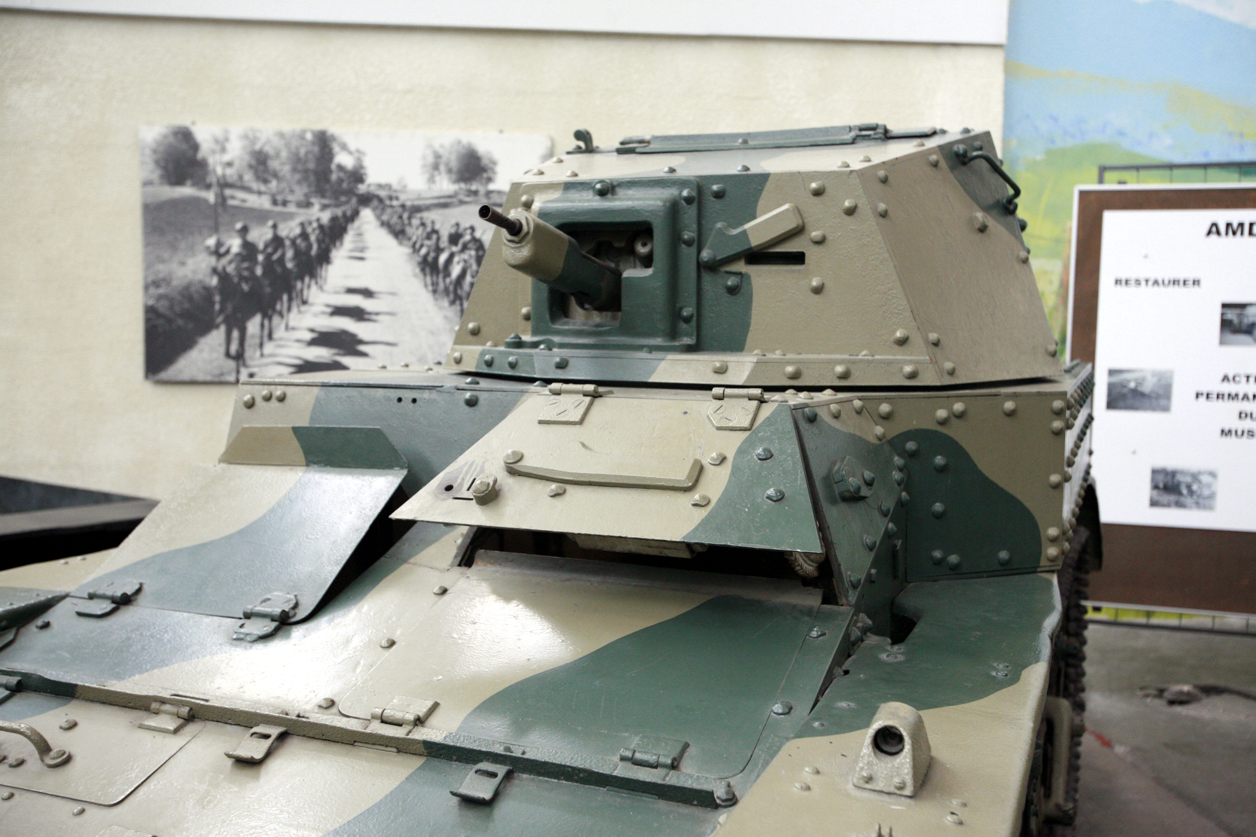 AMR 33. On display at Saumur Général Estienne museum.